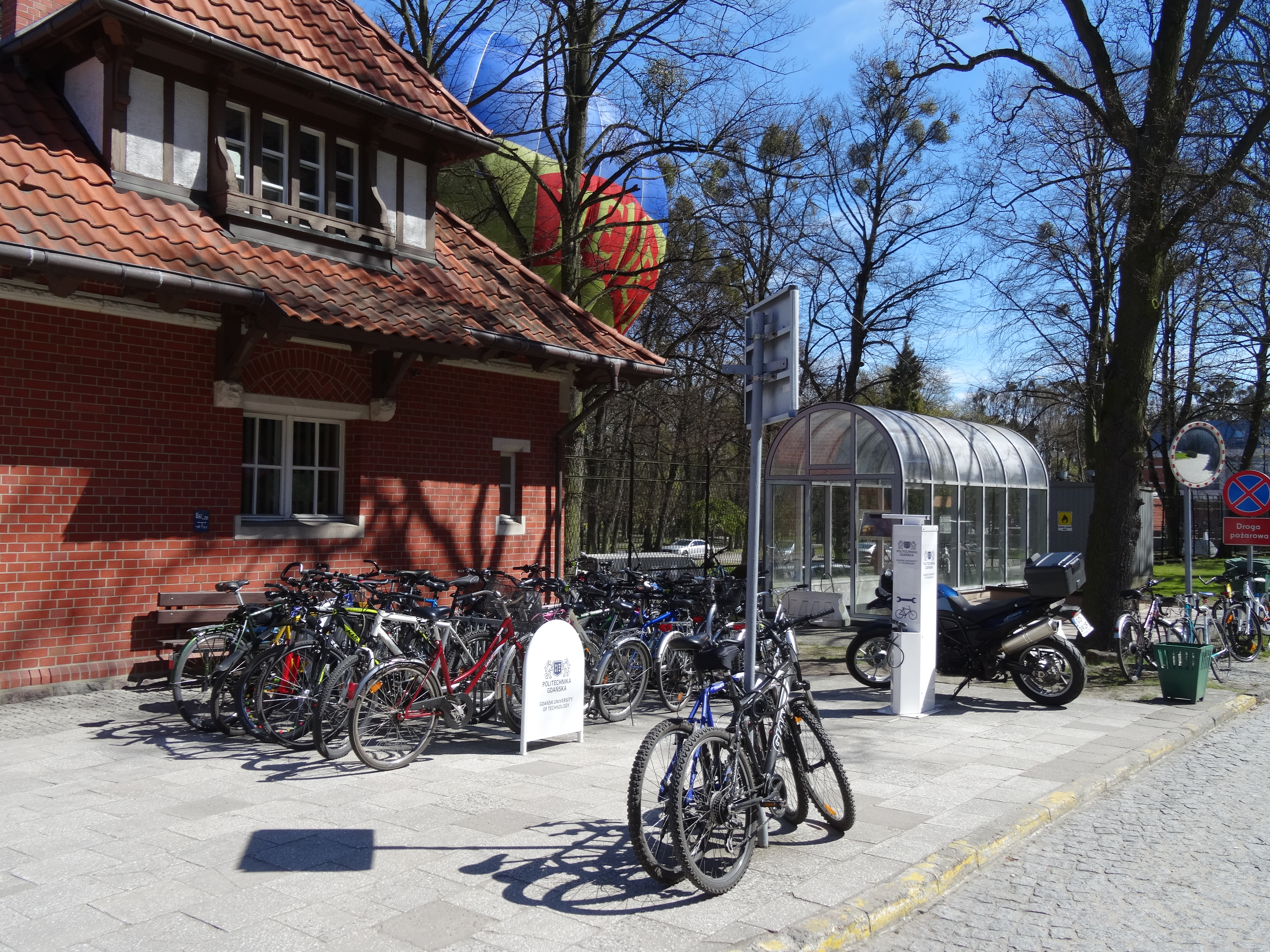 Bicycle parking and self-service station at Gdansk University of Technology